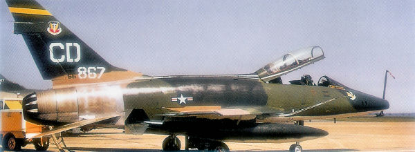 A U.S. Air Force North American F-100F-10-NA Super Sabre (s/n 56-3867) of the 524th Tactical Fighter Squadron, Cannon AFB, New Mexico (USA). 56-3867 was retired to the MASDC on 11 January 1972 and sold to Turkey in May 1973.